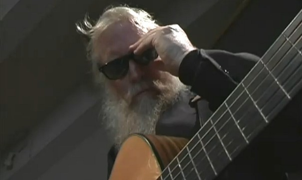 Rick Moses in a screen shot from his "Evil and Dangerous Men" video.